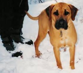 Mrs. Julie Murphy, Mobile, Alabama. I am the source of the photo taken in Virginia in 2003, of Murphys Blackmouth of the South, Kassie. Please just reference me as the source if you use the photo.